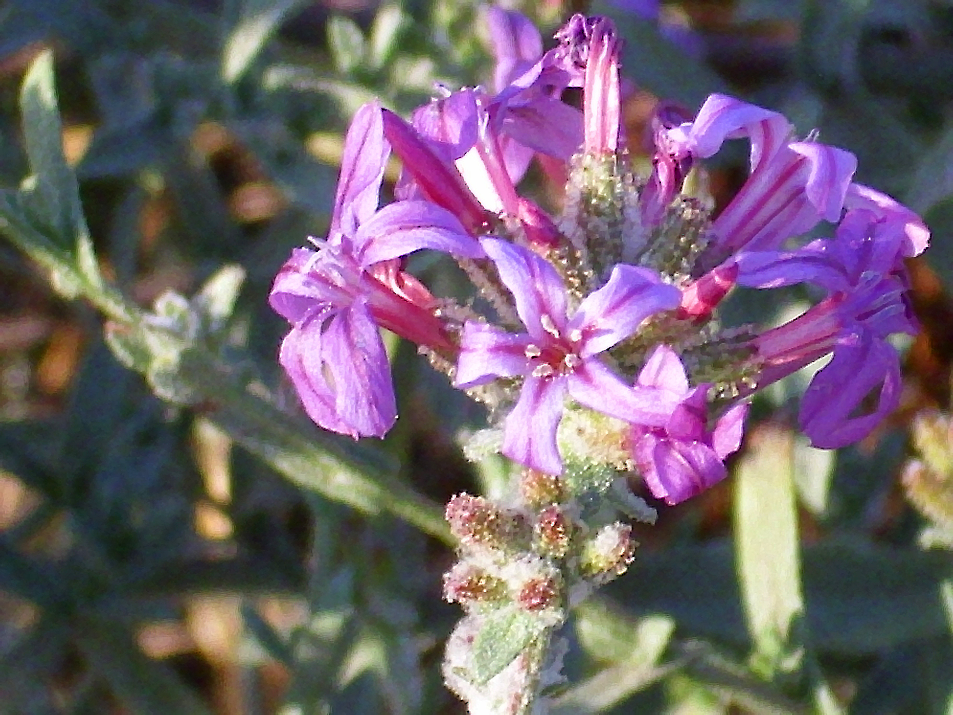 Plumbago europaea flower close up Campo de Calatrava, Spain